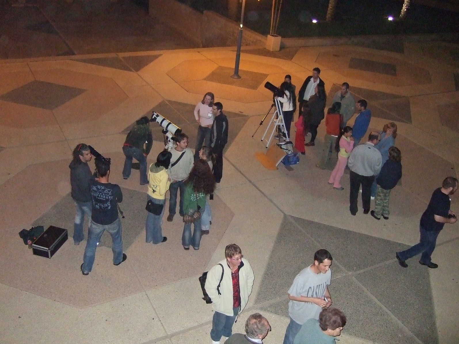 Star party in the Ben-Gurion University of the Negev by the Ilan Ramon youth physics center